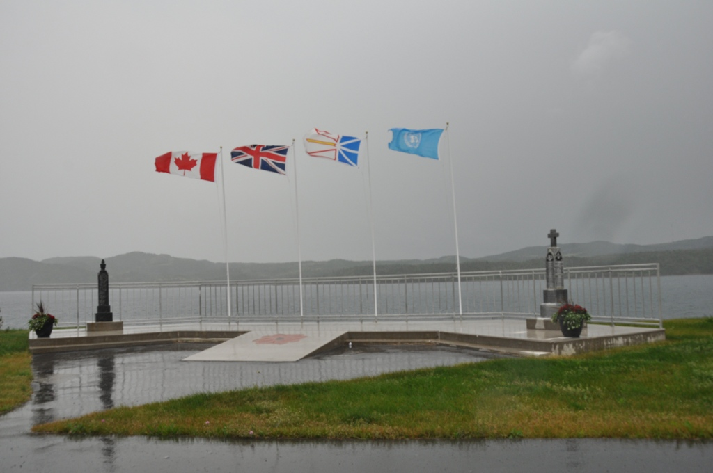 Women's Patriotic Association War Memorial Municipal Heritage Site, Sunnyside, Newfoundland.